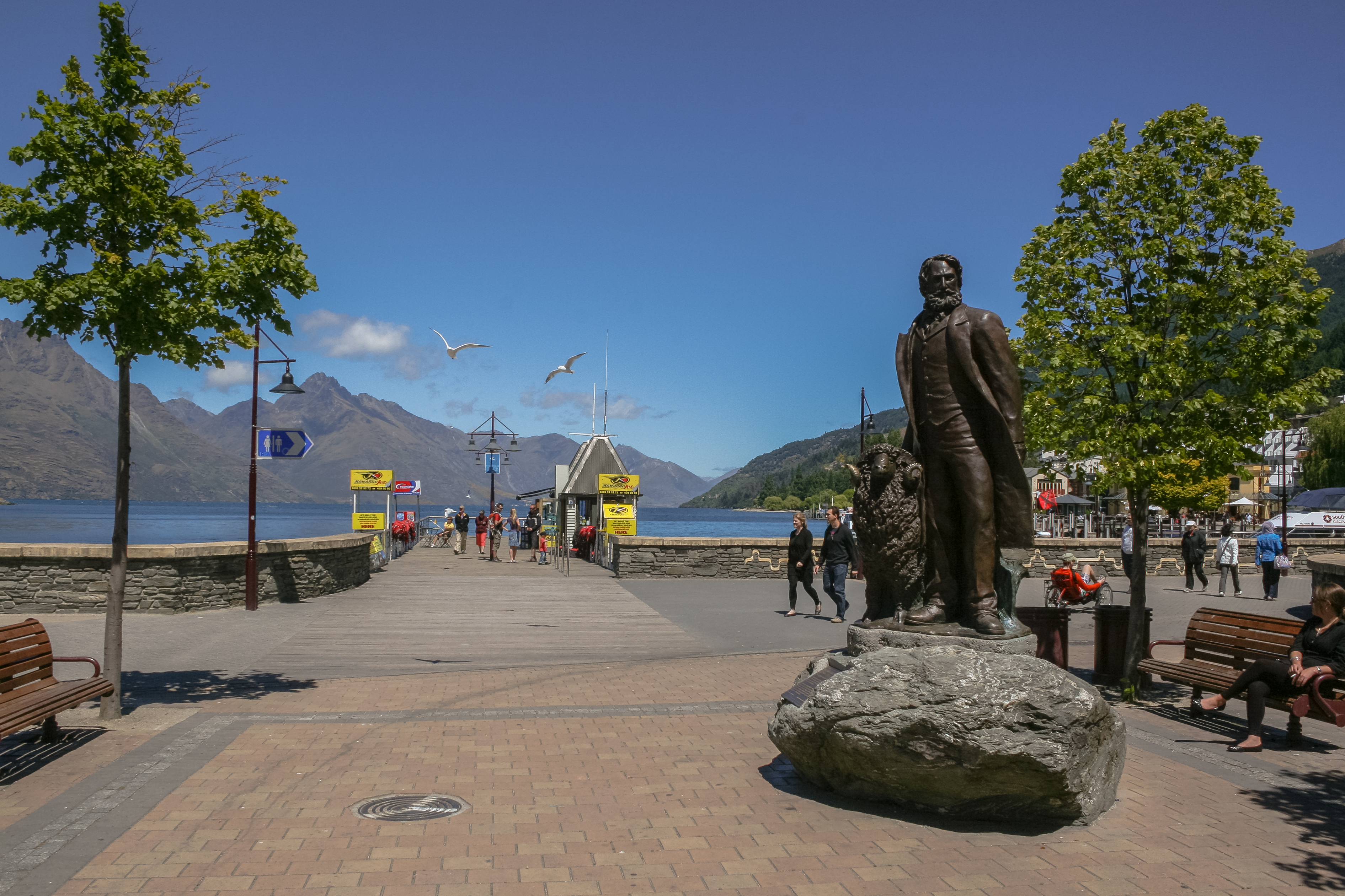 Queenstown, New Zealand